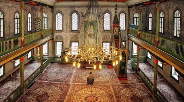 Interior of Colorful mosque in Travnik